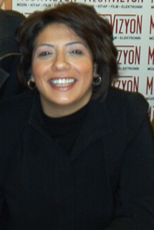 Işın Karacain Ankara, Turkey in 2005